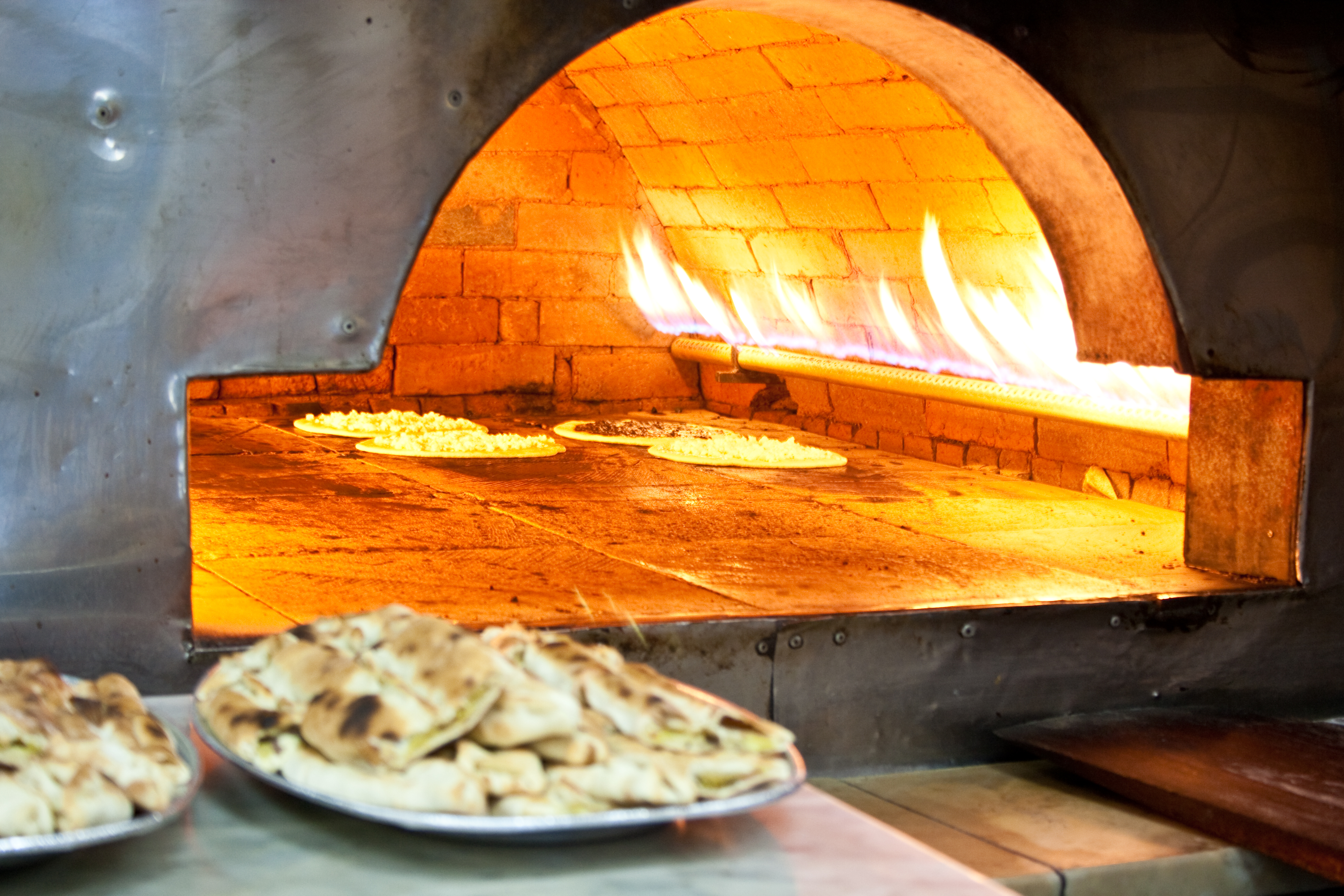 Fatayer bakes in a brick oven at Naurah Bakery on Najma St.